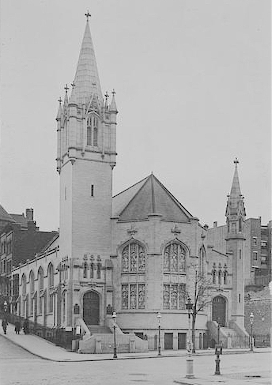 Cropped version of File:St. Nicholas Avenue Presbyterian Church (Harlem).jpg